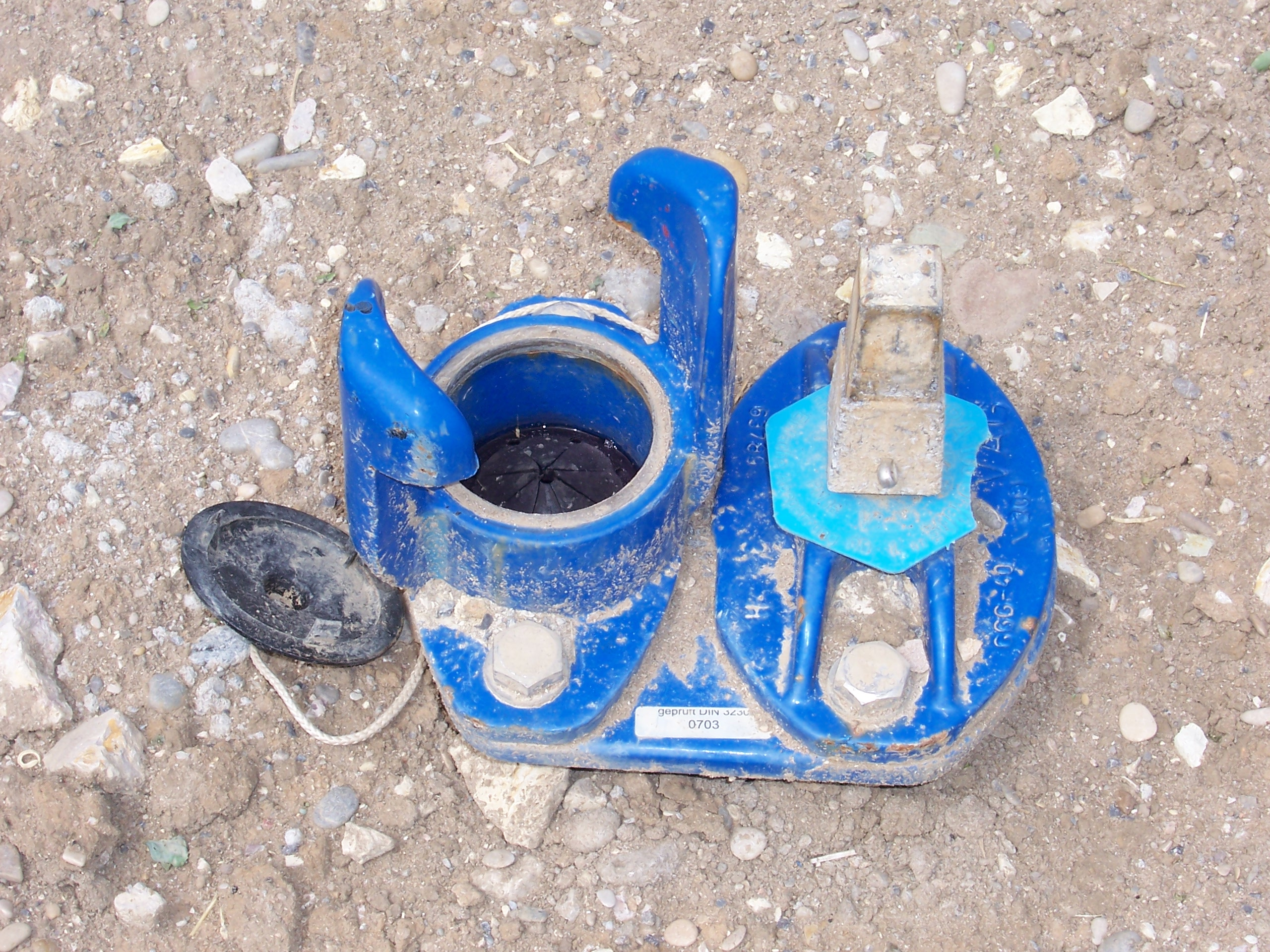 a german Unterflurhydrant. This part of the fire hydrant will later be below the ground.